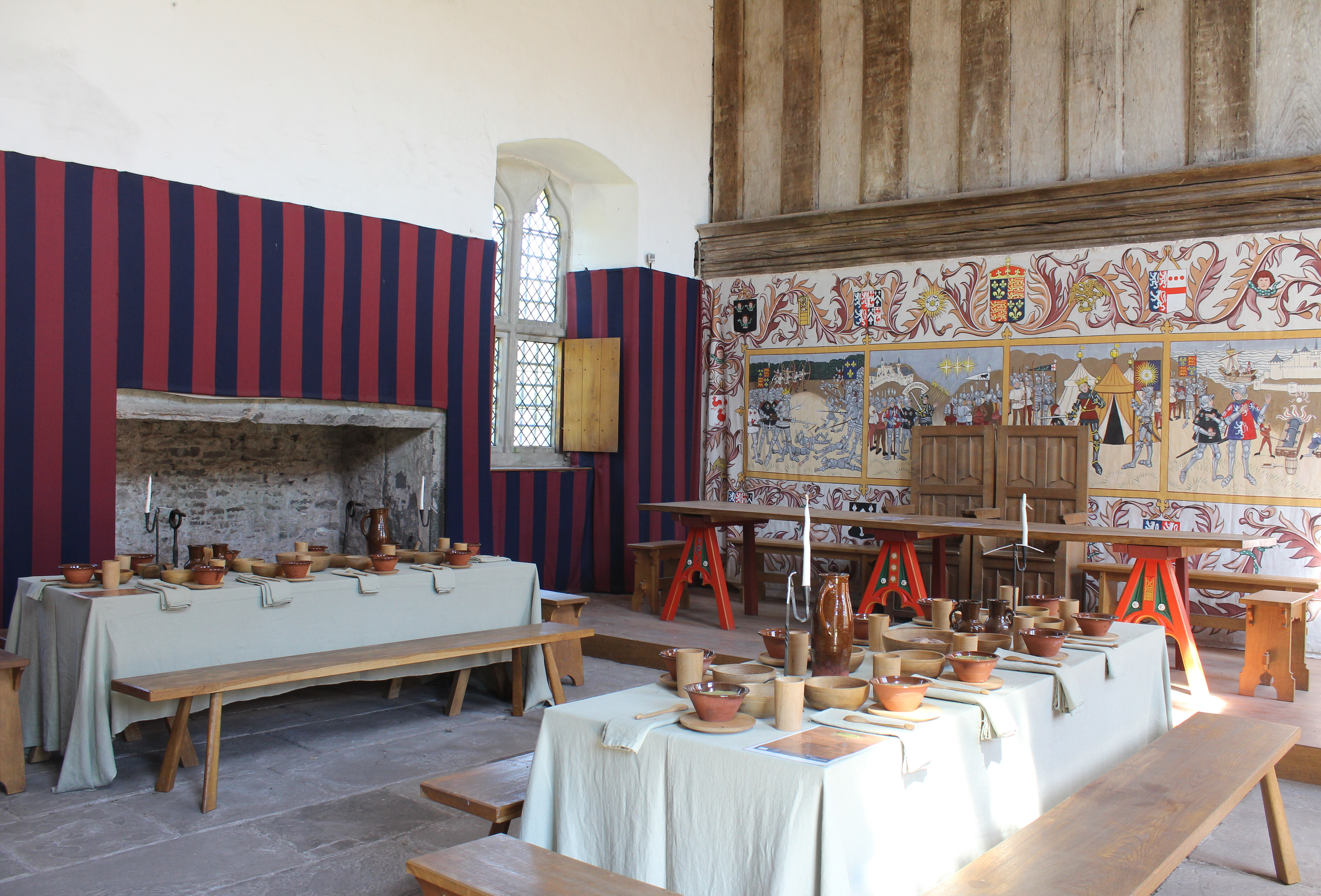 Great hall of Tretower Court, a a Grade I listed 15th Century fortified manor house, located about 3 km NW of Crickhowell, Powys, Wales. The room has been restored to reflect what it might have looked like in the 15th century.